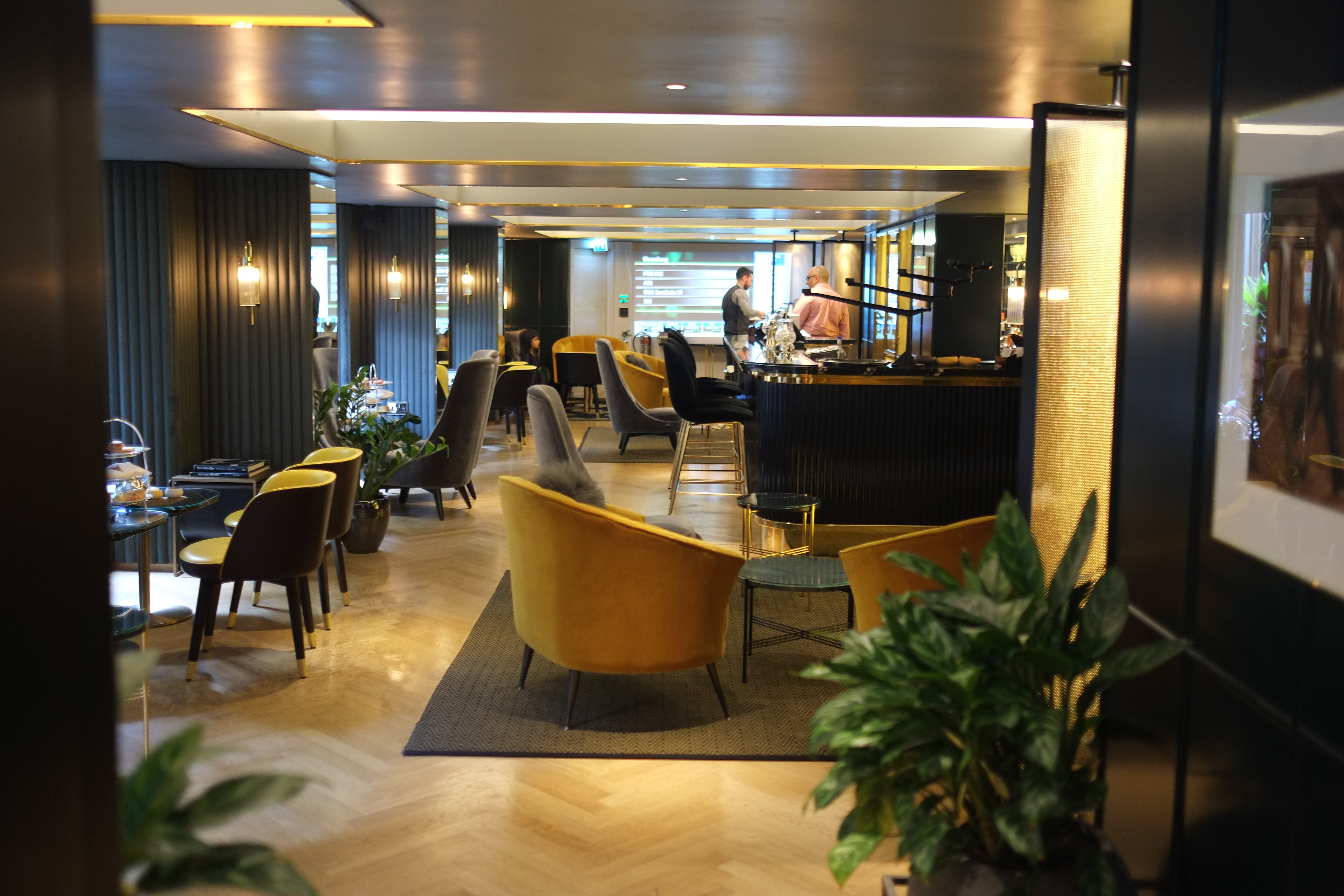 Lounge Bar at the Athenaeum Hotel, Piccadilly, London, UK